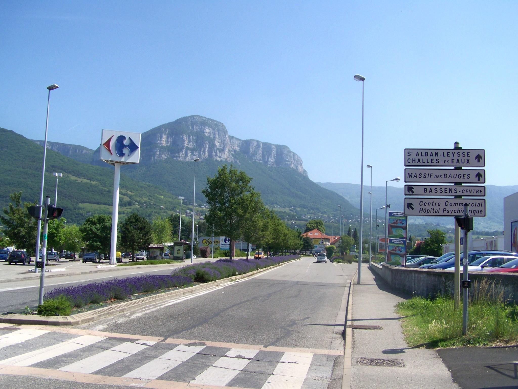 Main avenue crossing French commune of Bassens and its mall, near Chambéry in Savoie.